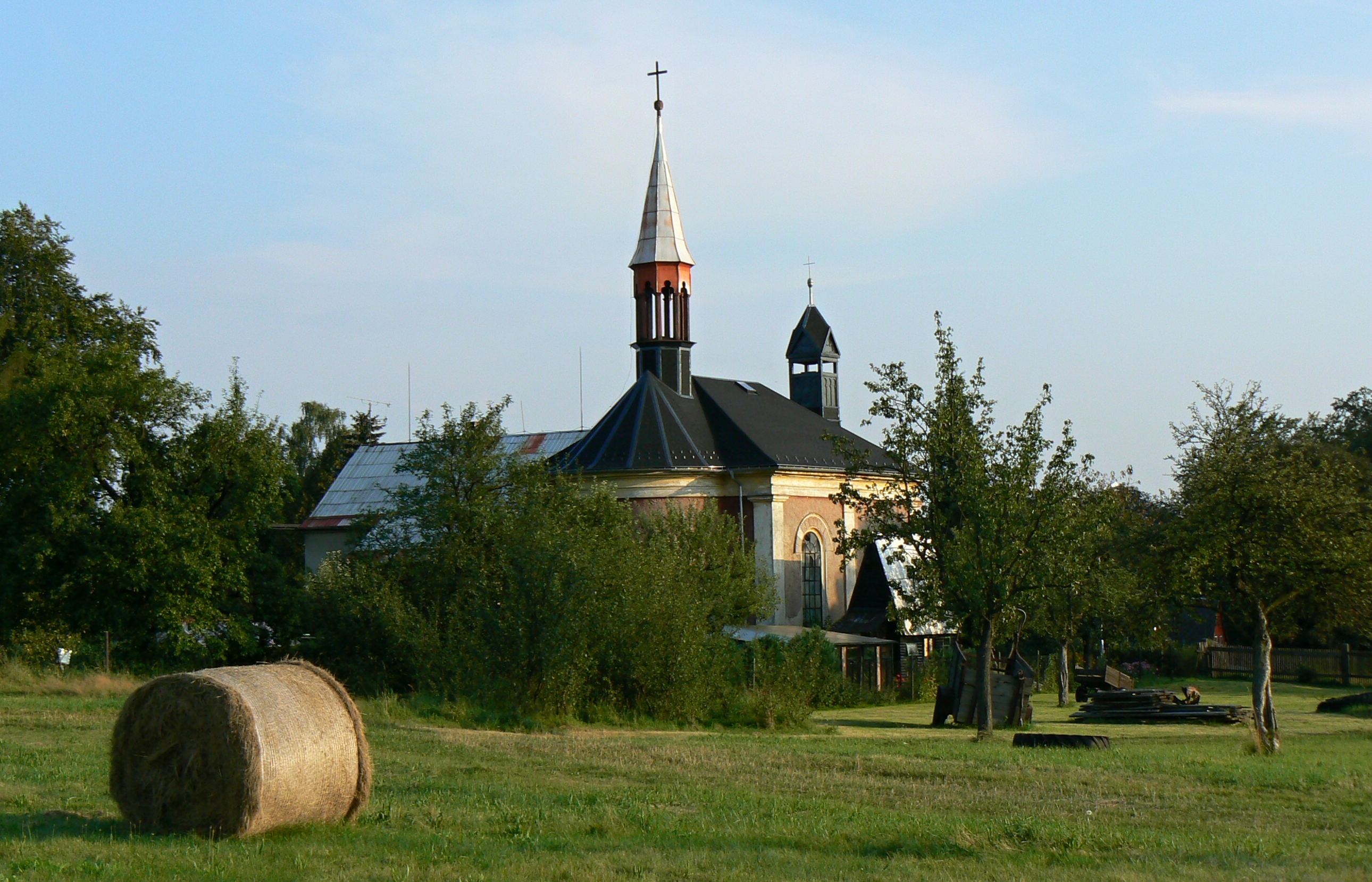 little church in Vlčí Hora near Krásná Lípa, Děčín District